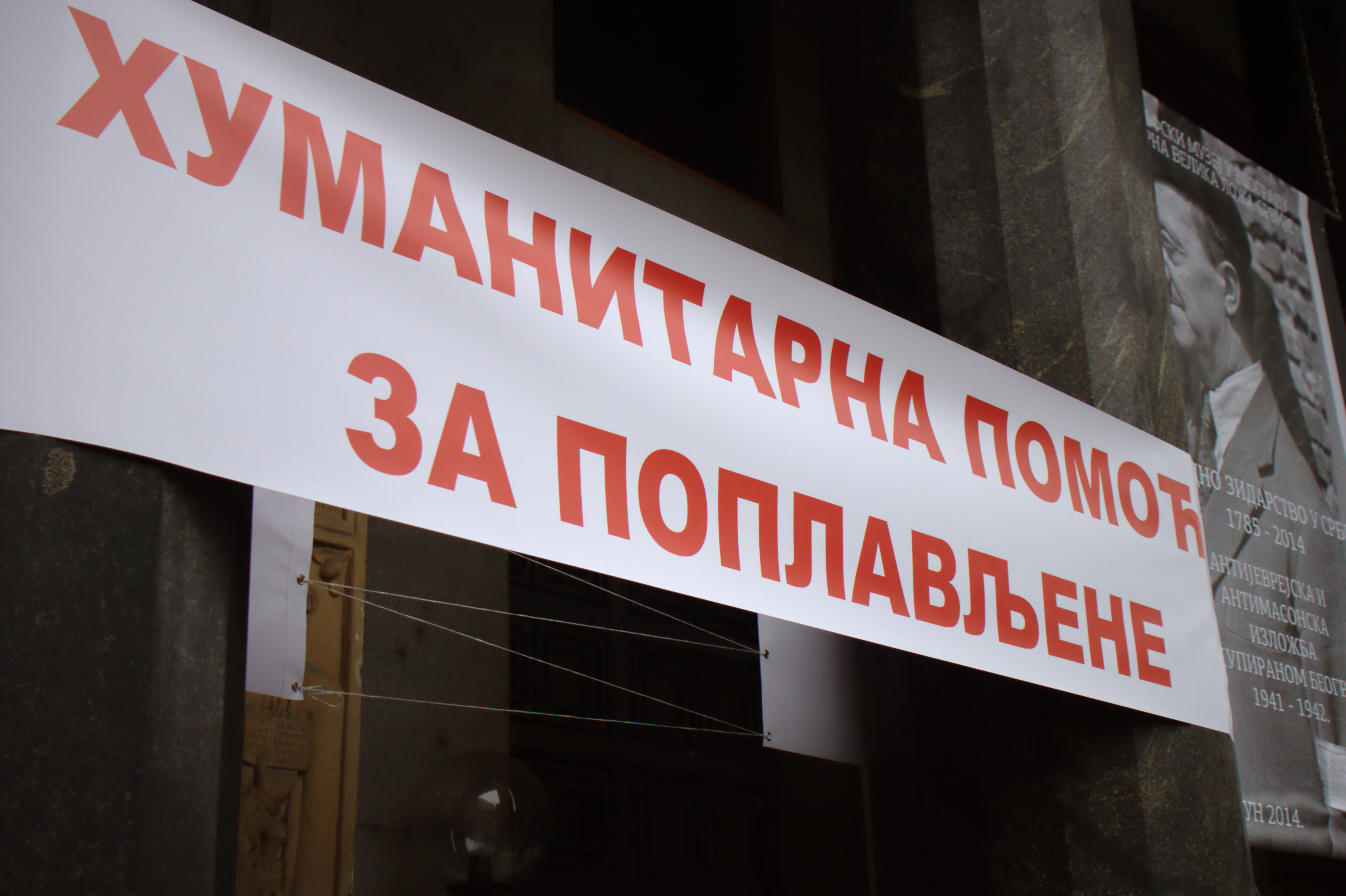 Humanitarian aid for people affected by the 2014 Serbian floods